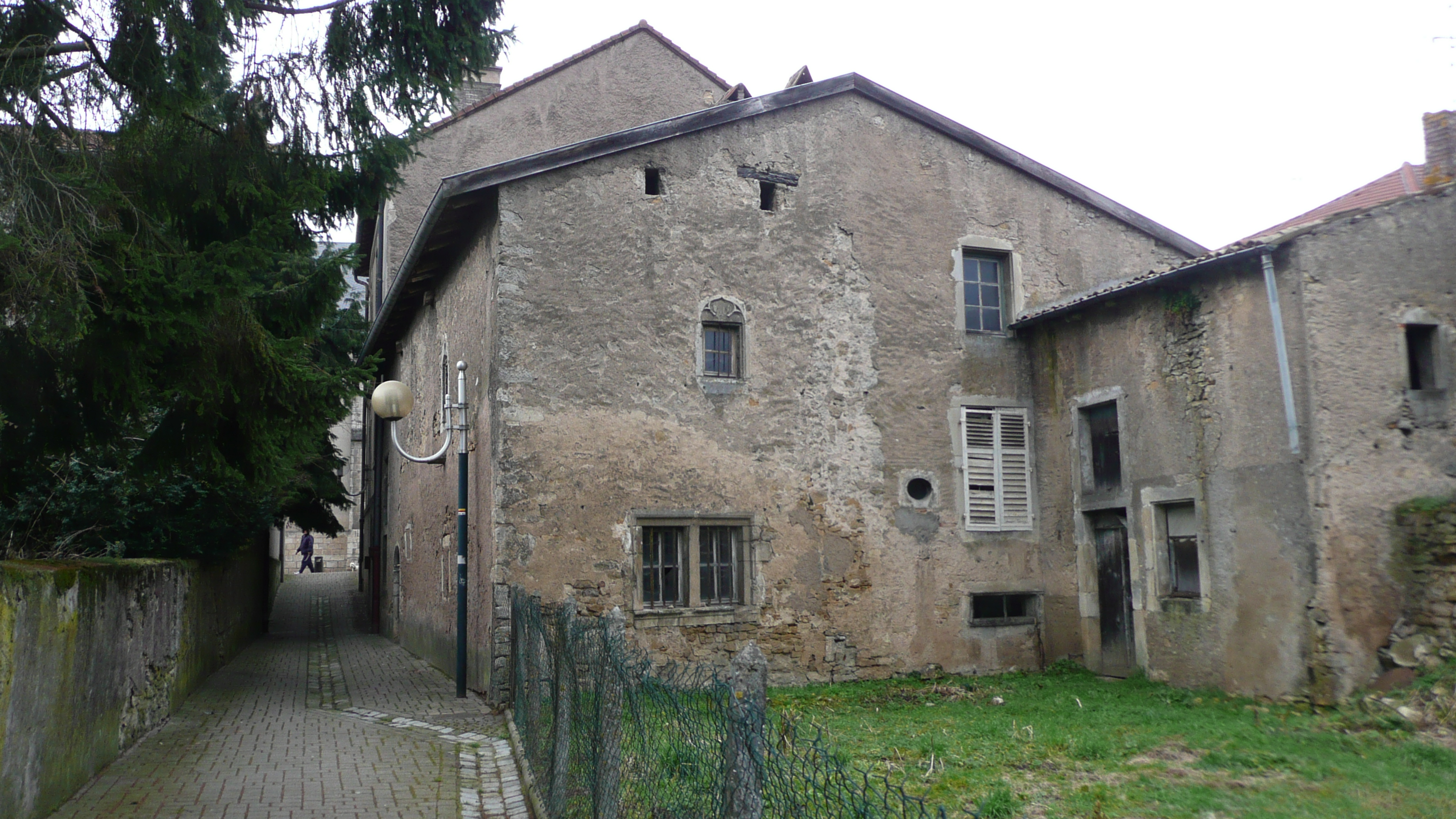 Renaissance House located behind the town hall on the edge of the lane between the High Street and Willow Street.